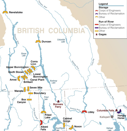 Maps of dams, drainage and estuaries along the Columbia River in North America (USA, Canada). Original caption: The Columbia River carved the Interior Columbia River Basin from the landscape of seven Western states and two Canadian provinces. The river itself flows from its headwaters in British Columbia, Canada through only two states, forming part of the Washington-Oregon border, the vast Interior Columbia River Basin is defined by the area drained by the river and its many tributaries. This 58-million-hectare area (about the size of France) extends roughly from the crest of the Cascade Mountains of Oregon and Washington east through Idaho to the Continental Divide in the Rocky Mountains of Montana and Wyoming, and from the headwaters of the Columbia River in Canada to the high desert of northern Nevada and northwestern Utah.